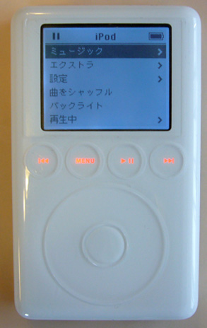 IPod 3rd Generation